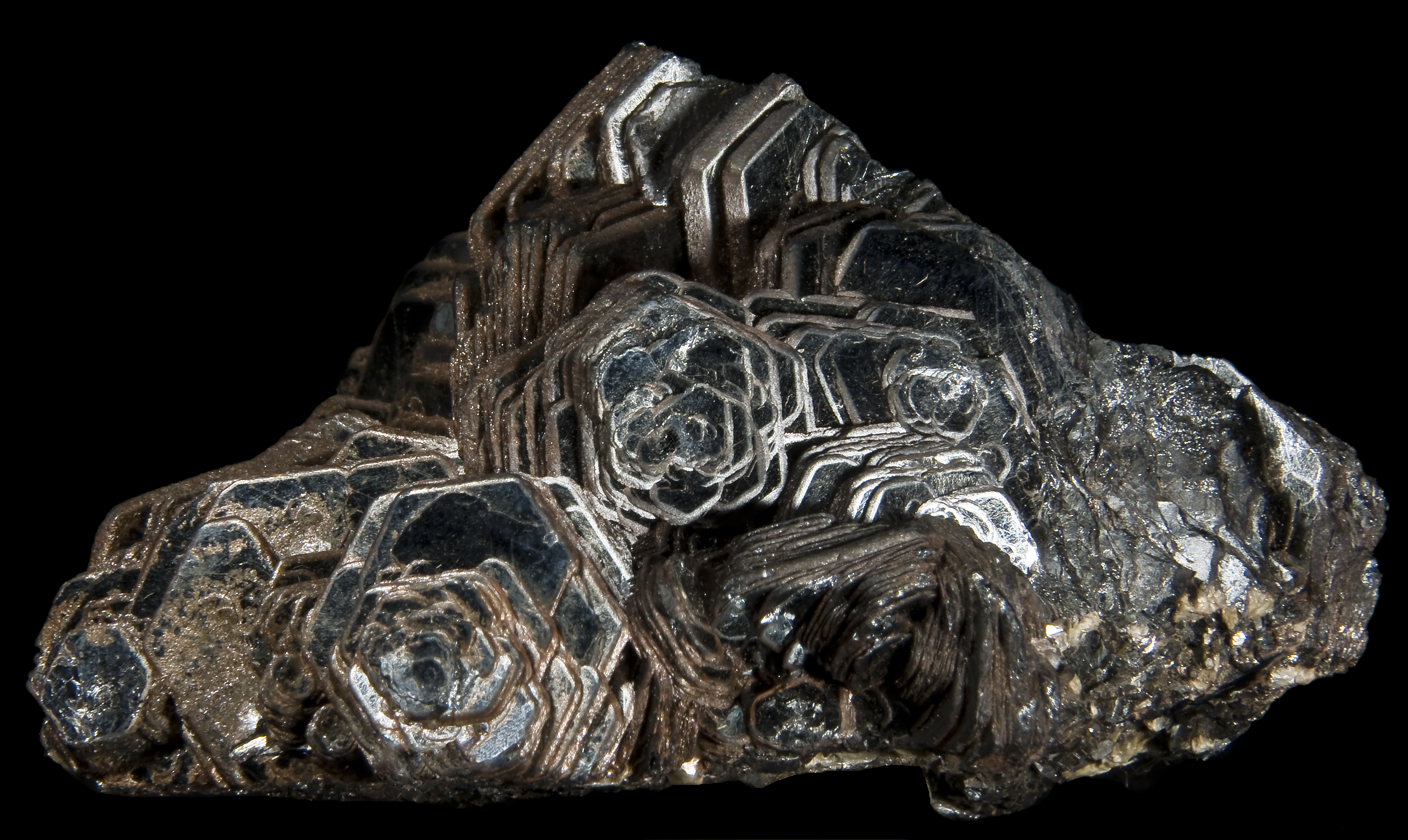 Hematite Iron-Rose Locality : Miguel Burnier (São Julião), Ouro Preto, Minas Gerais, Southeast Region, Brazil Size : (6x3.6cm)